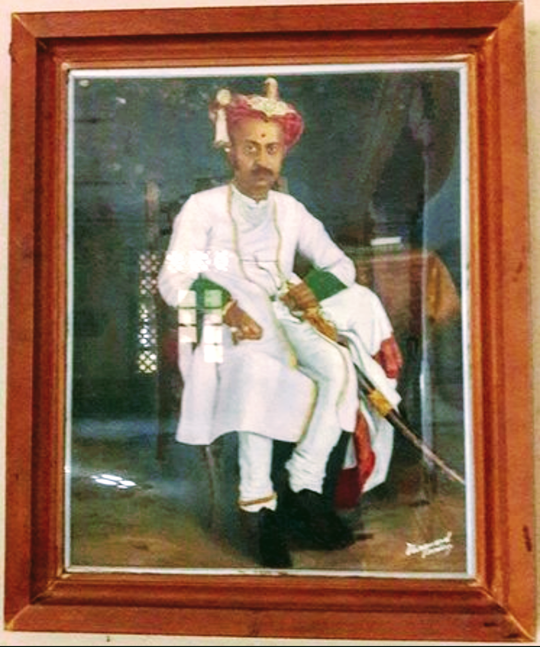 यशवंतराव के पिता